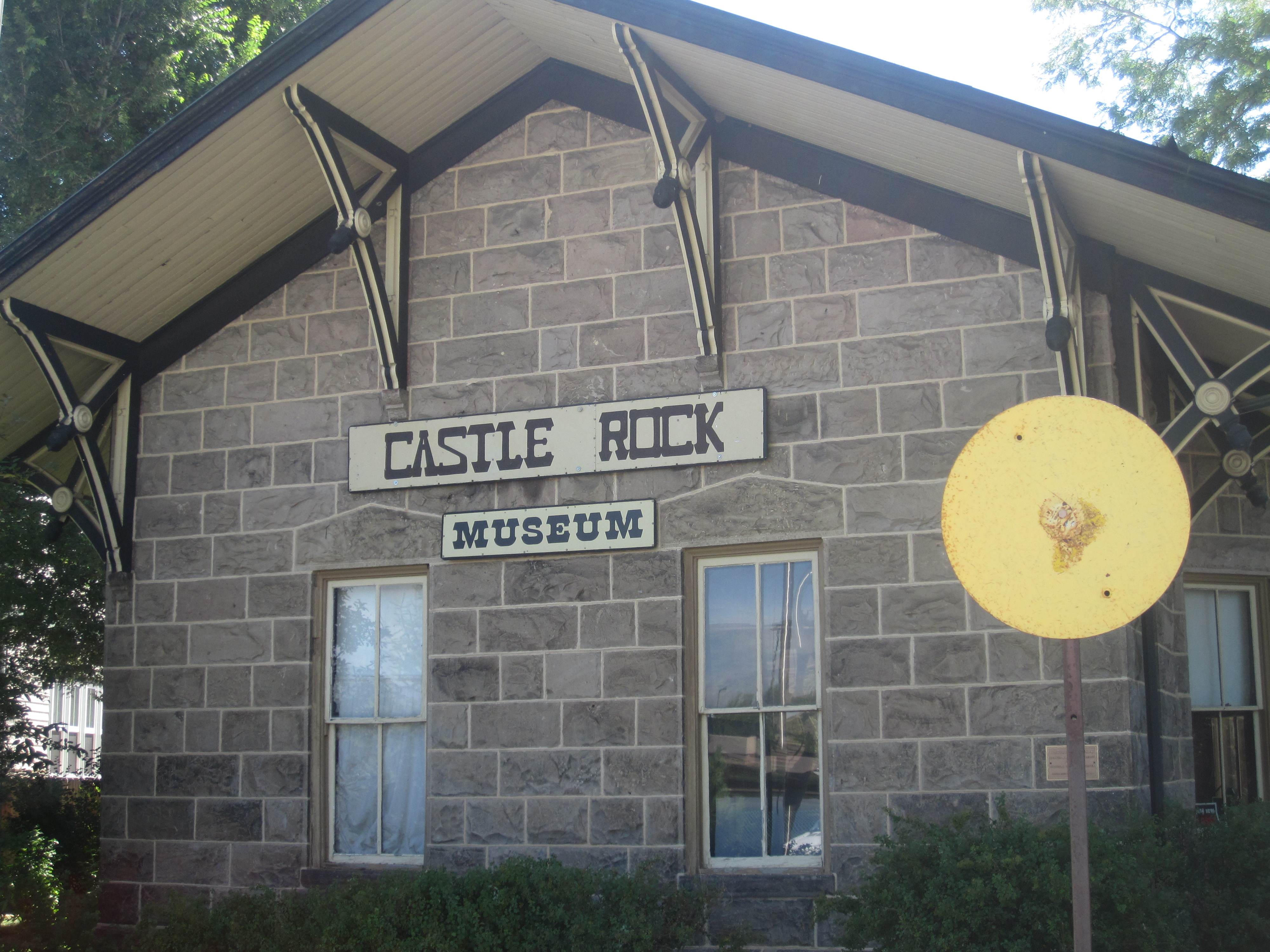 I took photo with Canon camera in Castle Rock, CO.